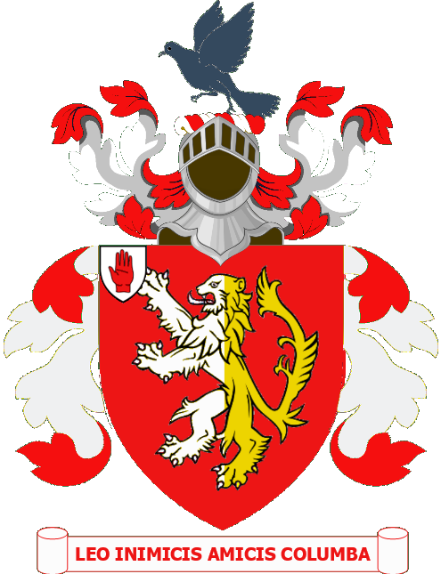 The armorial achievement of the Dilke baronets of Sloane Street